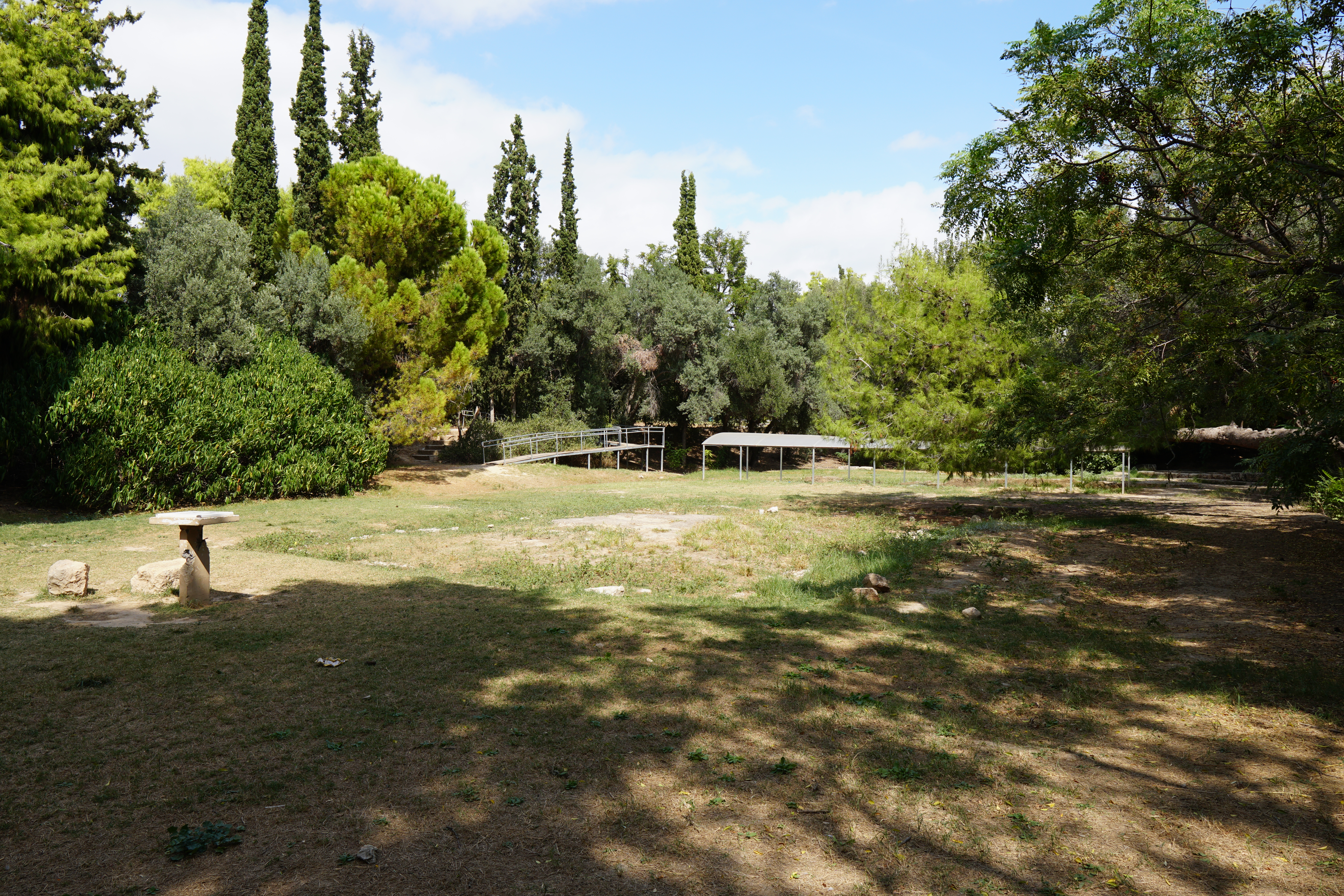 In the 6th century B.C. one of ancient Athens’ three Gymnasia (training grounds) was built in this area, while nearly two centuries later, in 388 B.C., Plato founded his philosophical school. The building unearthed here is considered to be the central part of the Gymnasium, which includes the Palaestra (wrestling school). It was, therefore, an establishment for training and teaching. It dates however to a considerably later period (1st century B.C. – 1st century A.D.). A large rectangular courtyard, surrounded by long and narrow indoor spaces, is preserved. A row of foundations supported – according to a suggestion – tables for the students. At the edge of the court, a cistern provided for athlete’s bathing requirements. To the east, west, and south of this edifice remains of buildings of the Roman period have been found which are also identified with part of the Gymnasium of this era. Text: Information board on the archaeological site.